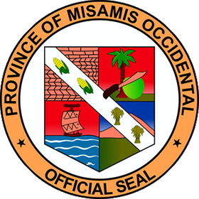 Provincial seal of Misamis Occidental, Philippines.